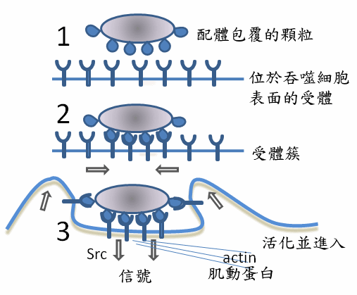 Chinese version of File:Phagocytosis in three steps.png